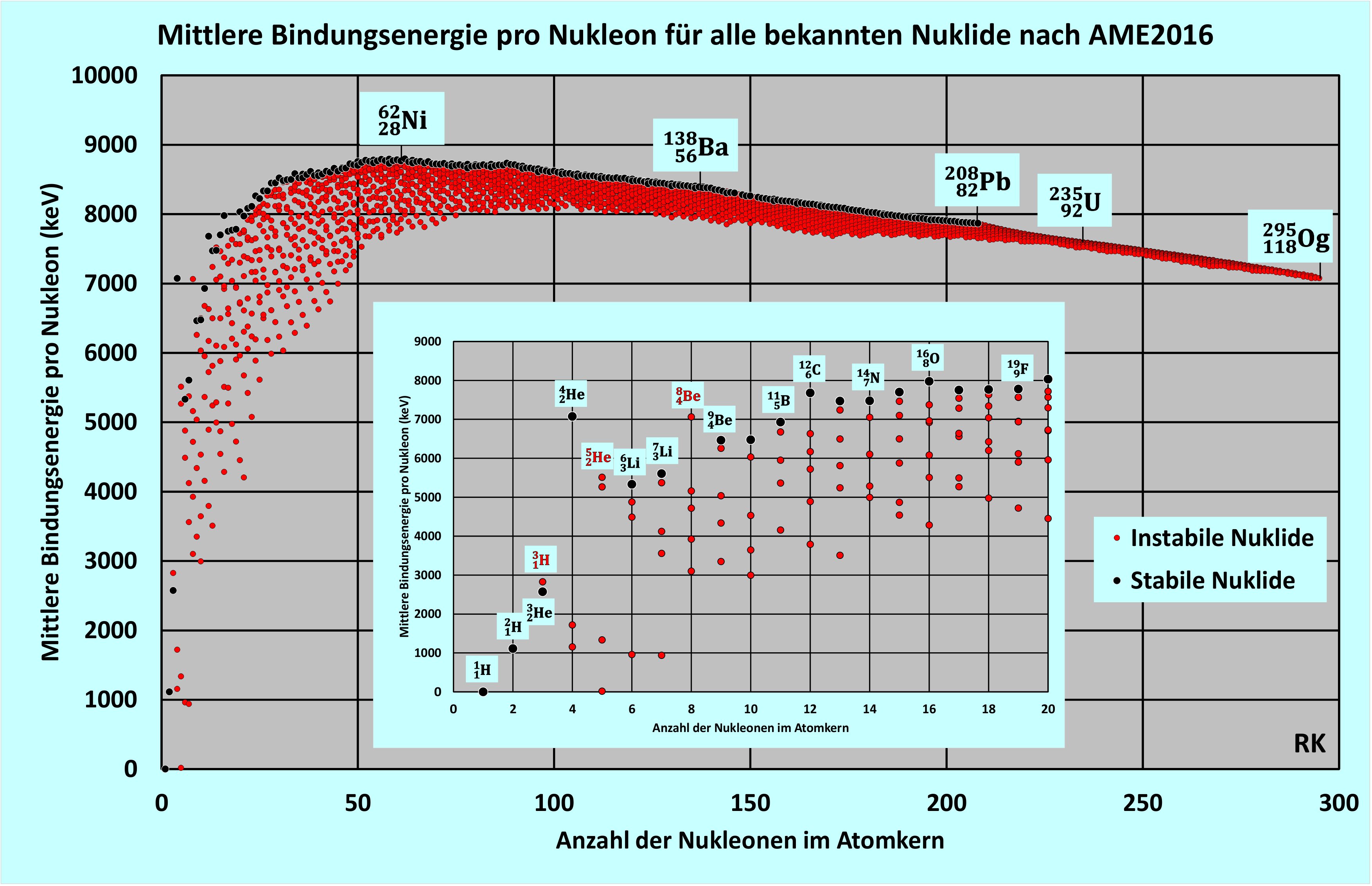 Average binding energy per nucleon as a function of the number of nucleons in the nucleus for all known nuclides according to AME2016